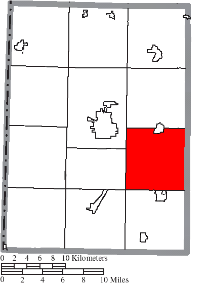 Map of the municipal and township boundaries of Preble County, Ohio, United States, as of the 2000 census, with the location of Lanier Township highlighted. Township borders are shown only in unincorporated areas in order to differentiate incorporated and unincorporated areas more clearly.